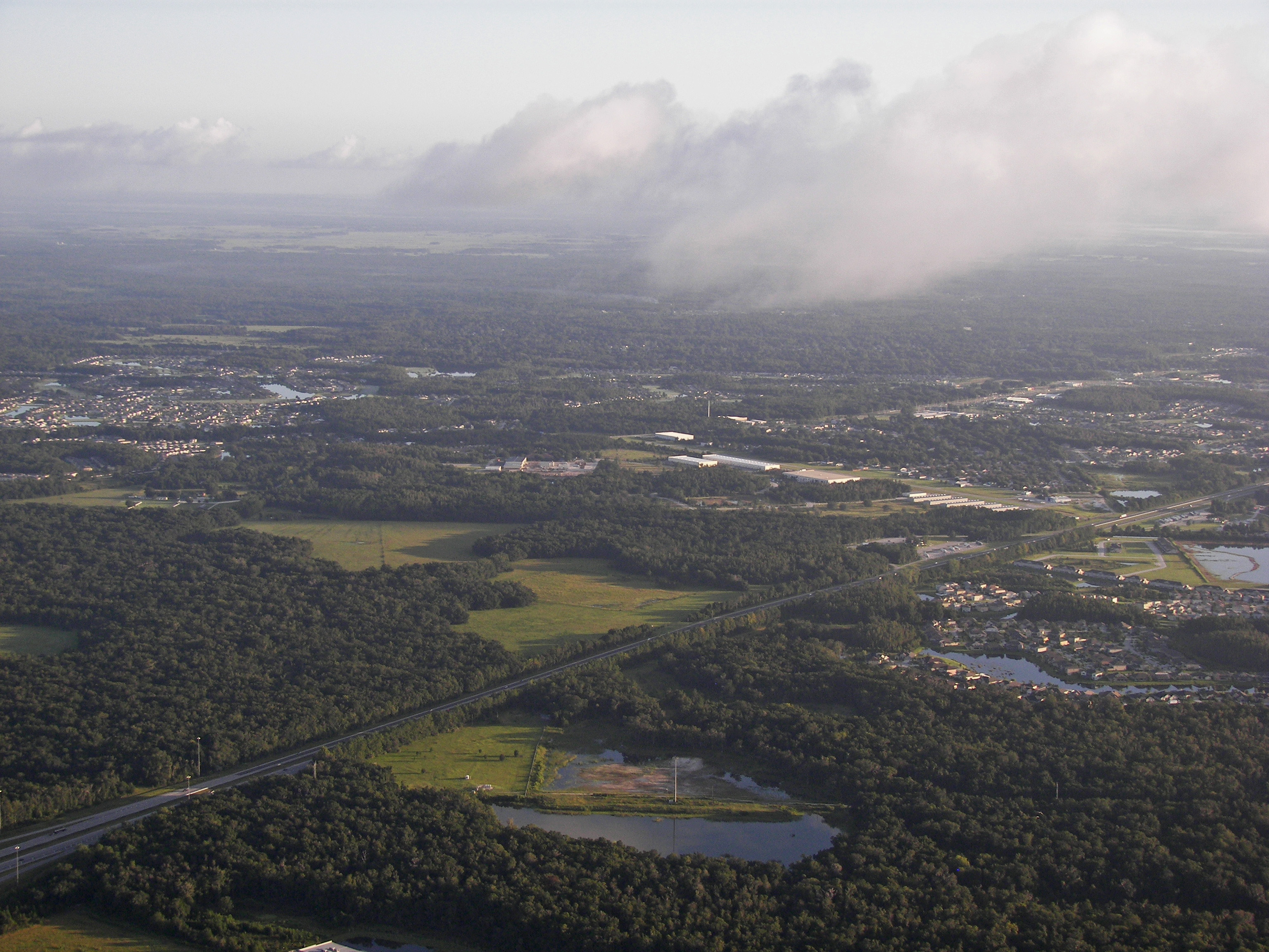 Aerial view of Interstate 75 in Pasco County from a hot air balloon.